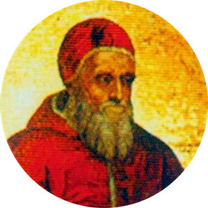 Portait of Pope Julius II in the Basilica of Saint Paul Outside the Walls, Rome